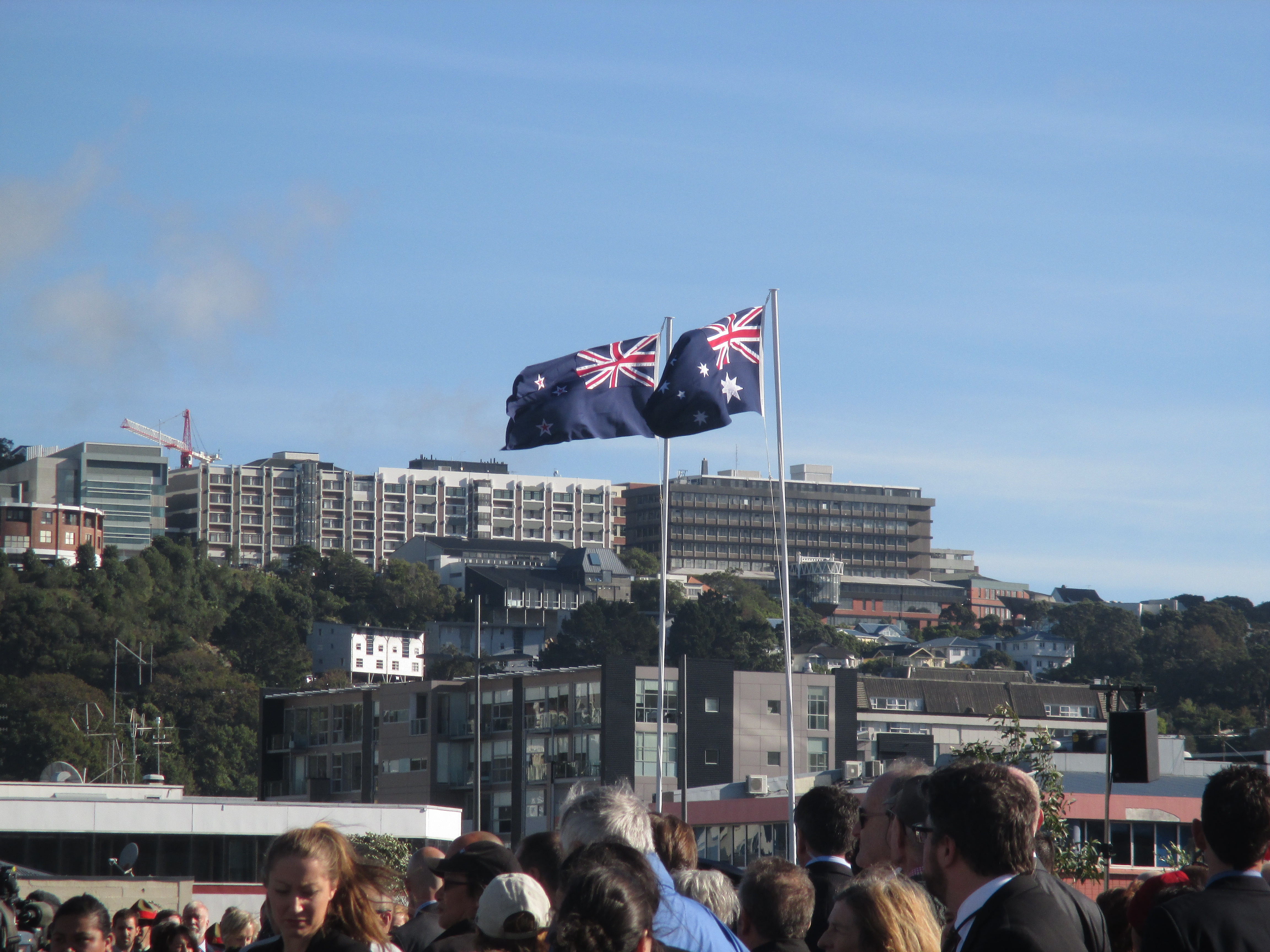 The New Zealand and Australian flags flying next to each other at the Dedication of the Australian Memorial at Pukeahu National War Memorial Park, Wellington, New Zealand on 20 April 2015.